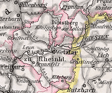 Detail from a map of Hesse.